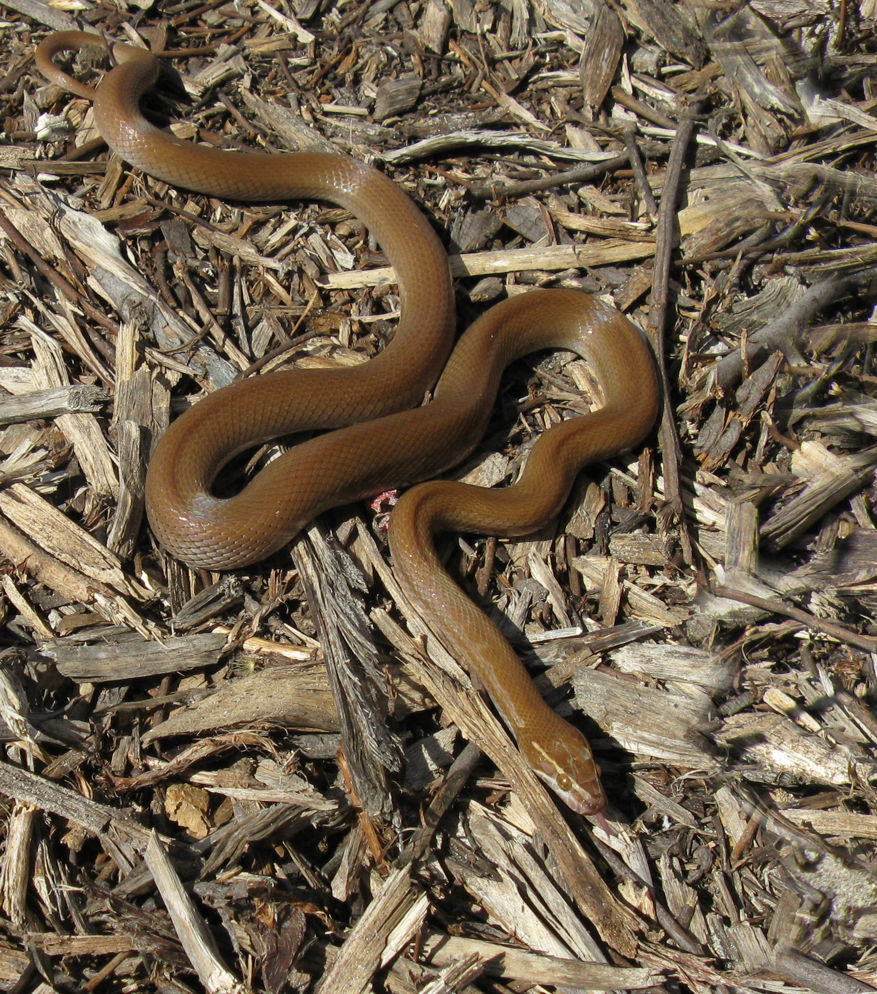 Lamprophis fuliginosus South African Brown House Snake. Female. Wild type coloration. This specimen about 50 cm long